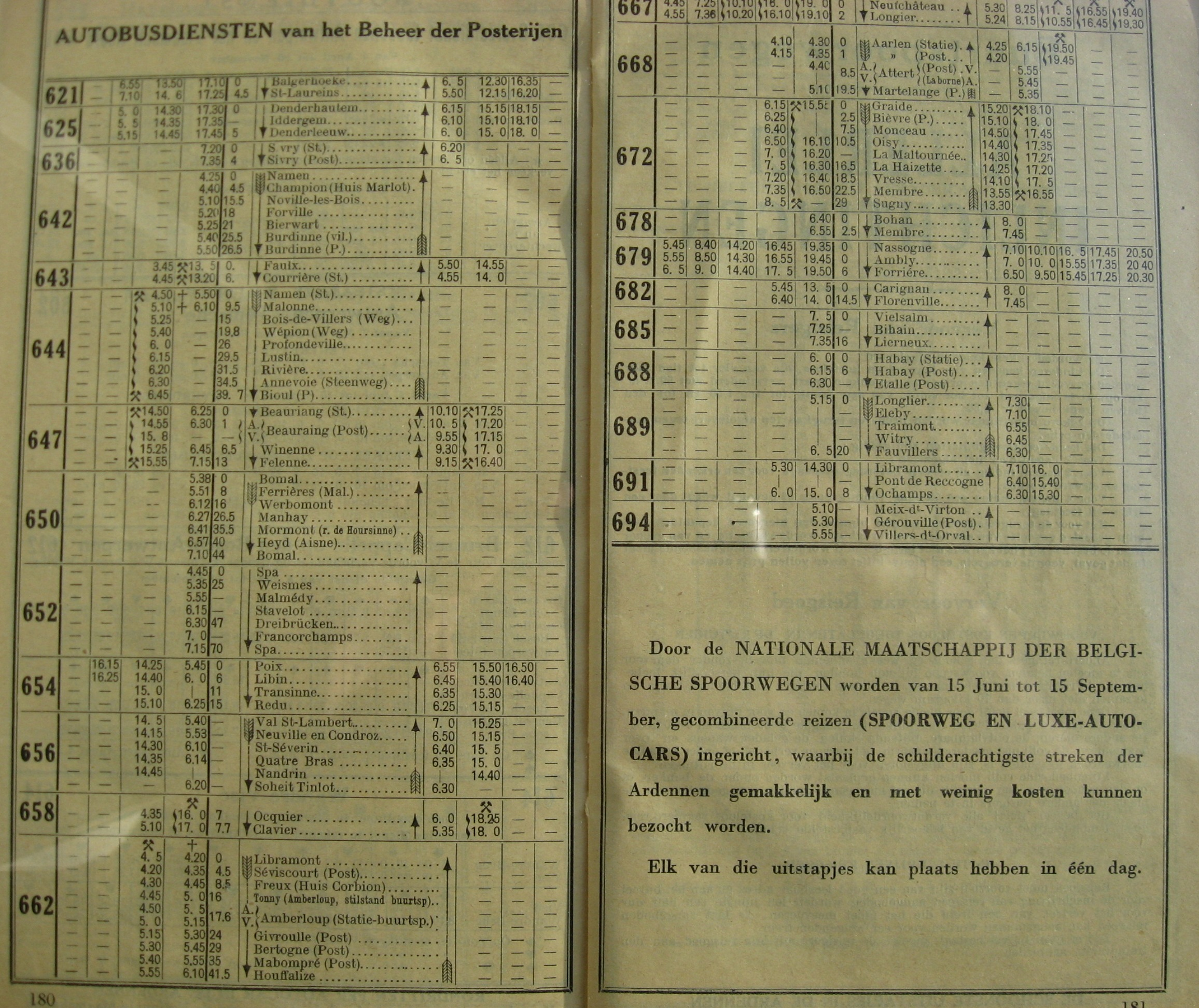 Postal lines in 1933 in Belgium. From Belgian railway timetable.